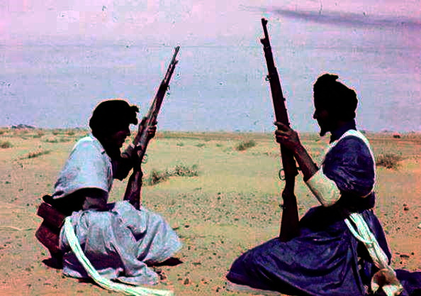 Saharwi fighters during the liberation war 1979